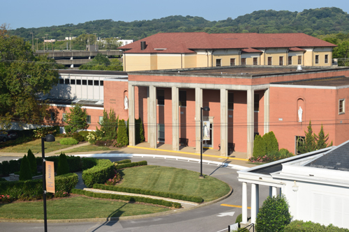 Aquinas College main academic building and traffic circle, with Siena Hall rising in the background. The college sits on 83-acres of wildlife preserve in West Nashville. Corpus Christi Adoration Chapel stands beside the college on the lower right, welcoming visitors daily.